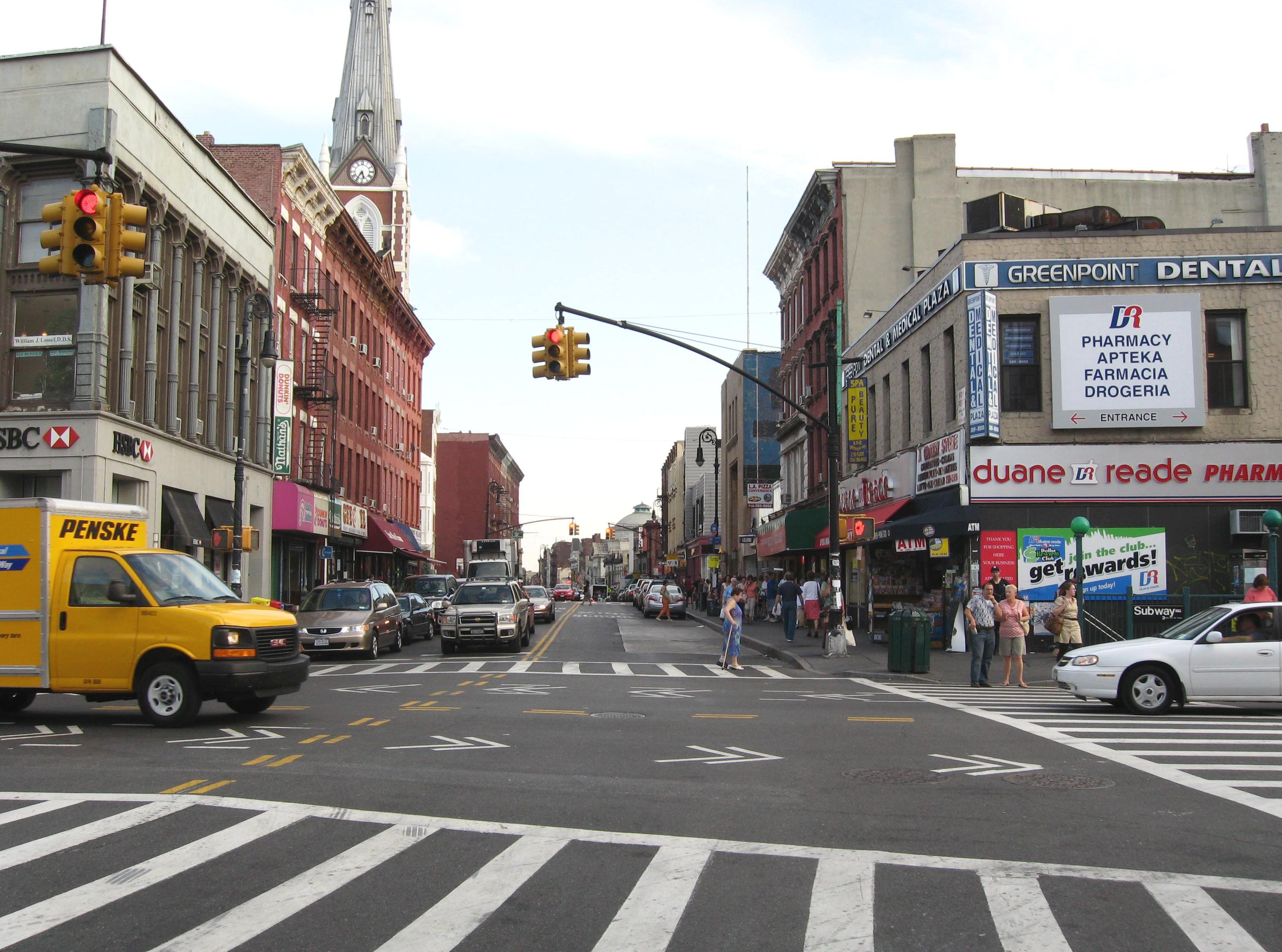 Looking south along Manhattan Avenue at Greenpoint on a mostly sunny midday